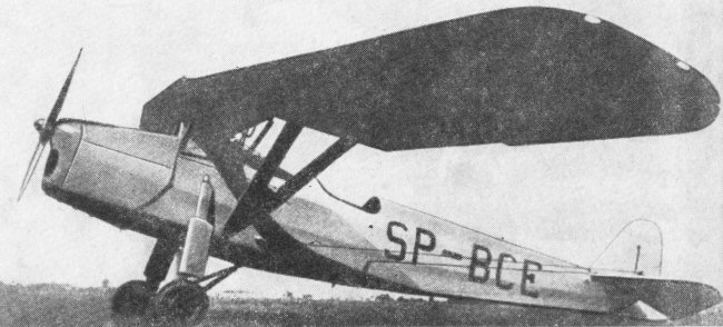 RWD 8 trainer